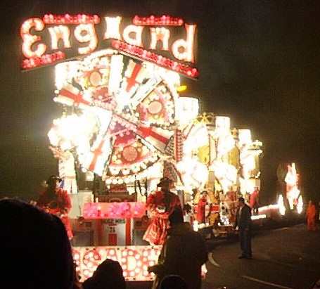 "Englands Glory" by Crusaders CC, Burnham on Sea Carnival 2006